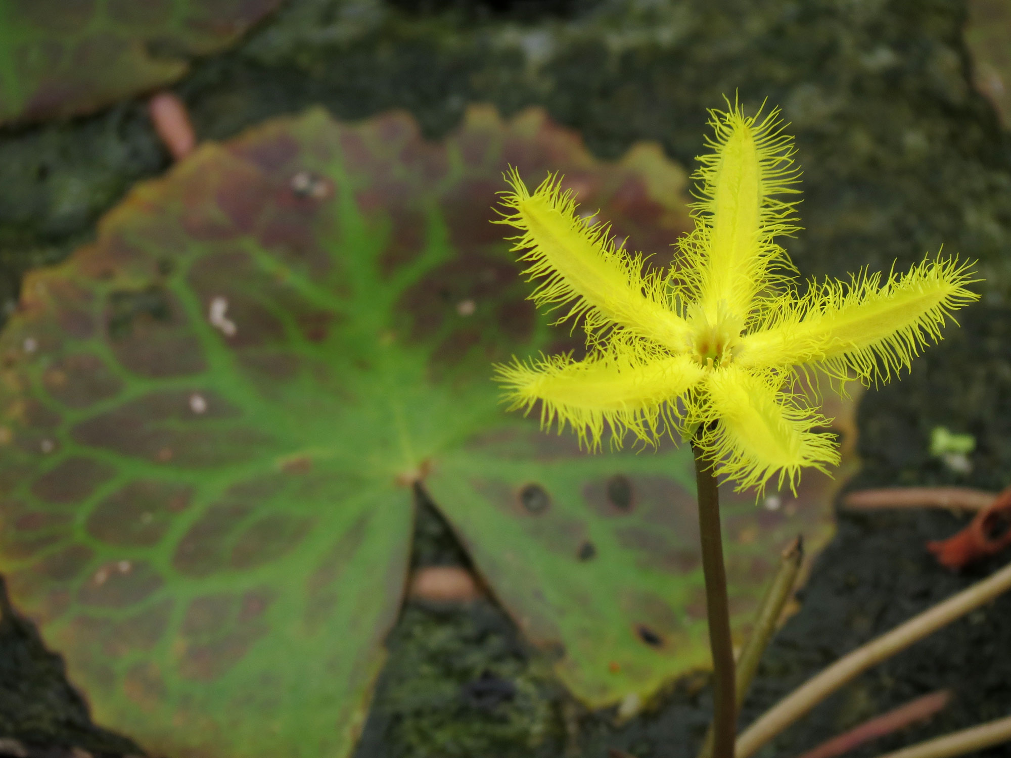 Nymphoides crenata. Kenilworth Aquatic Gardens, Washington, DC, USA. 1 September 2012.